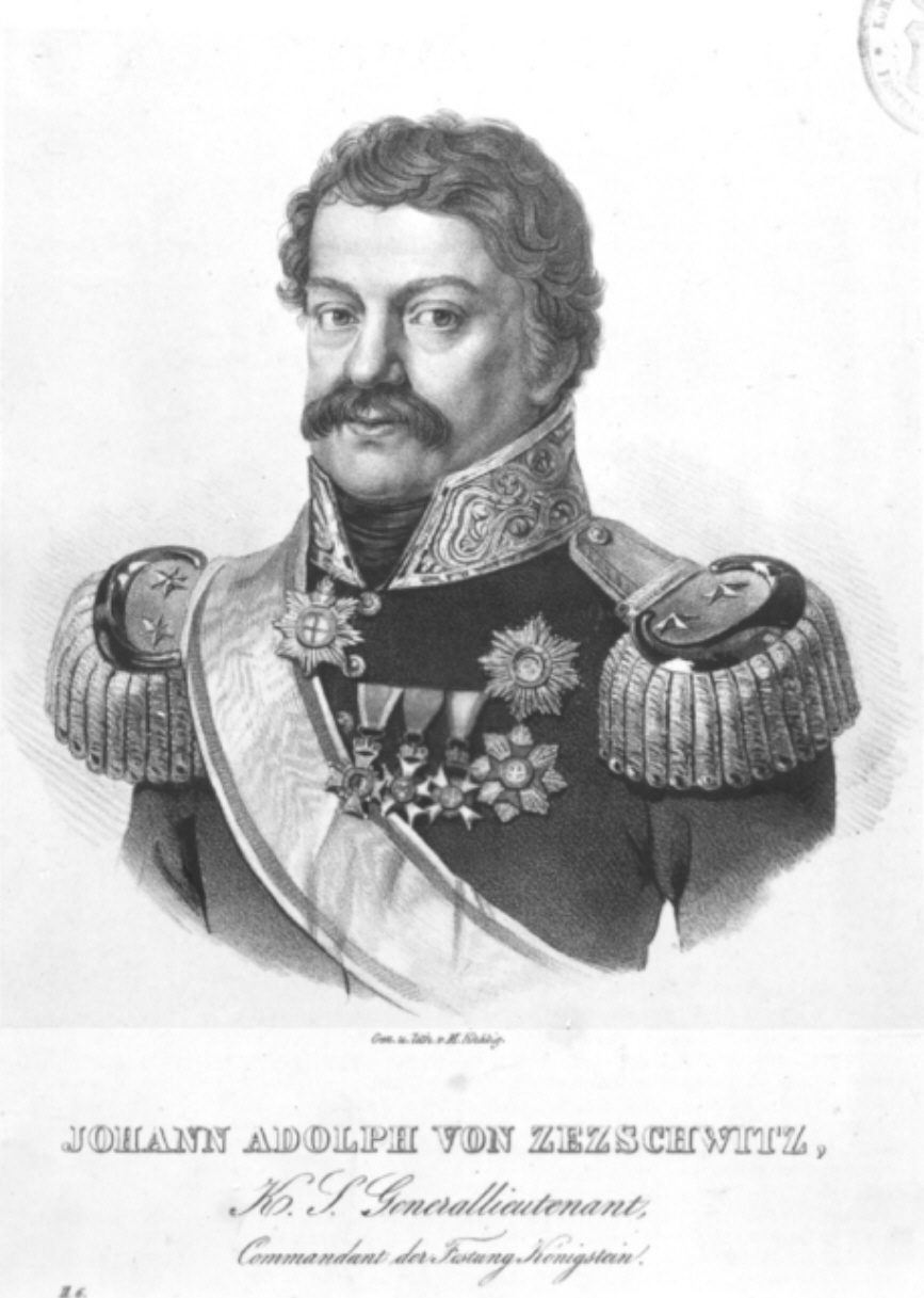 Johann Adolf von Zezschwitz